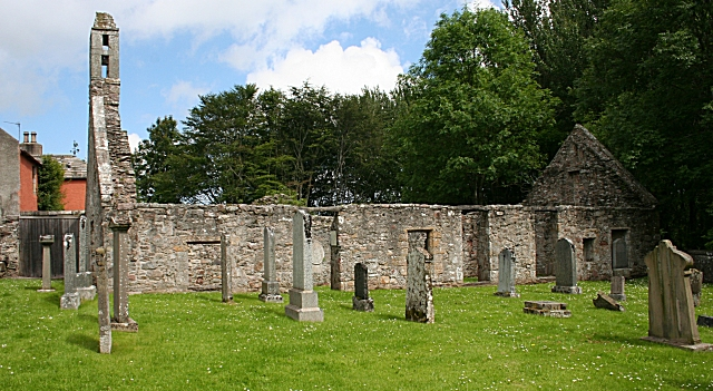 Deskford Kirk The kirk dates from the sixteenth century.